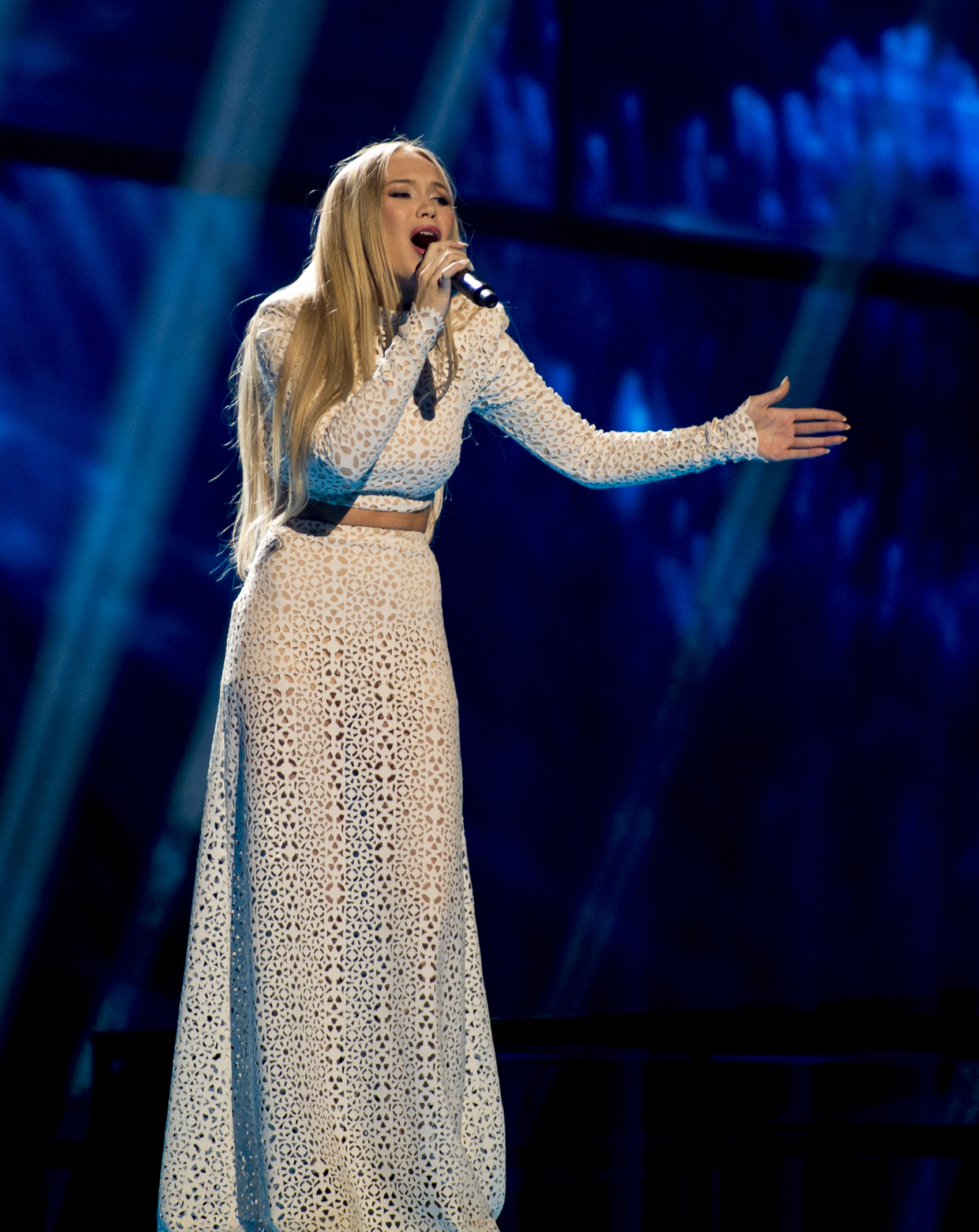 Agnete representing Norway with the song "Icebreaker" during a rehearsal before the second semi final of the Eurovision Song Contest 2016 in Stockholm. (Help translate this text)